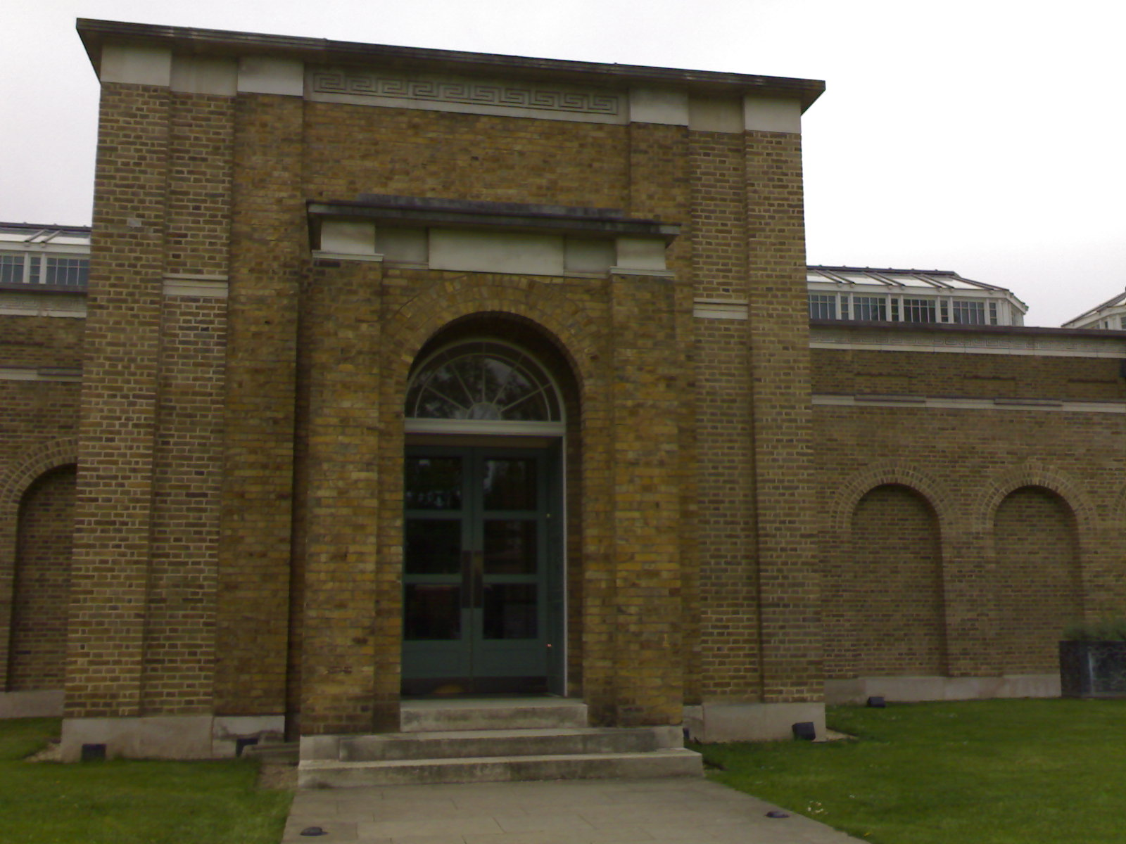 Dulwich Picture Gallery exterior06